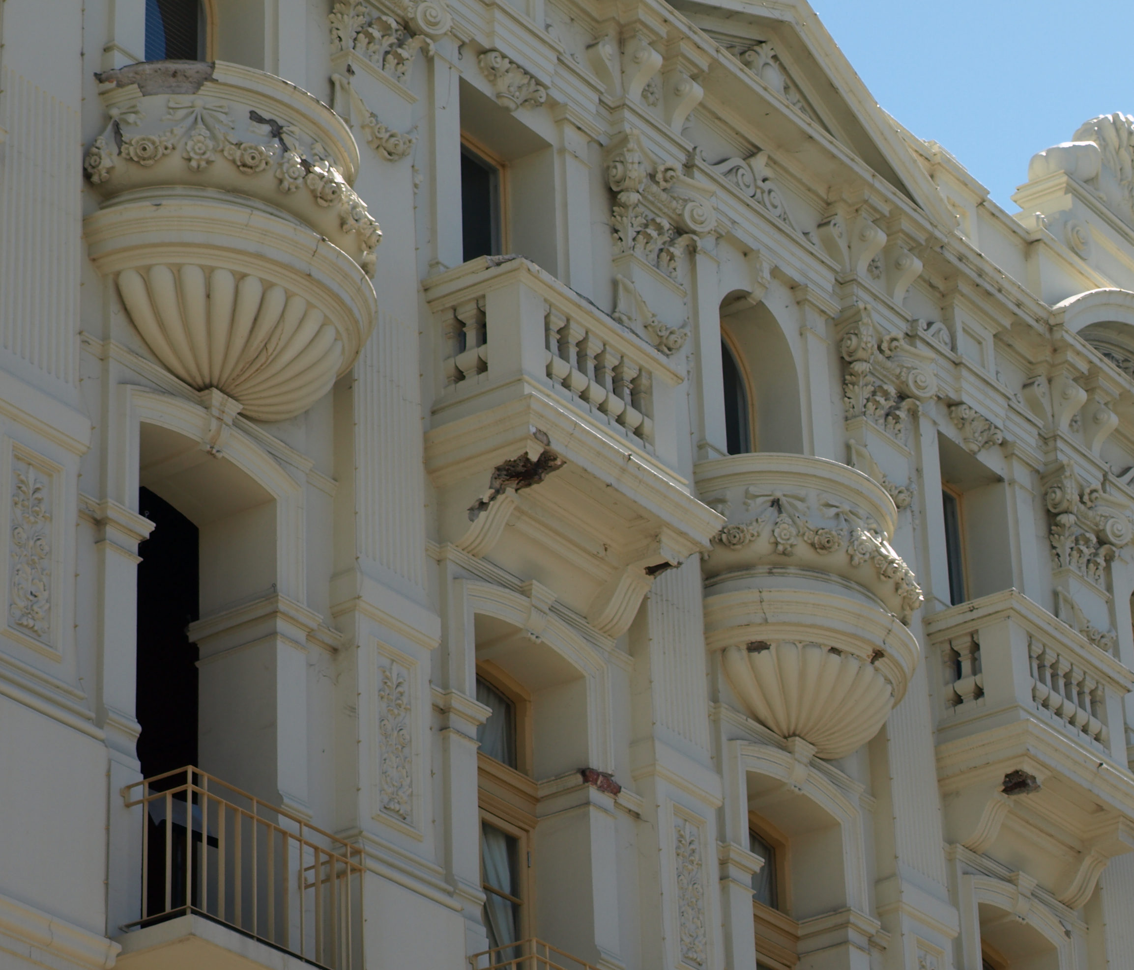 Superficial deterioration visible on the facade of His Majesty's Theatre in Perth, Western Australia